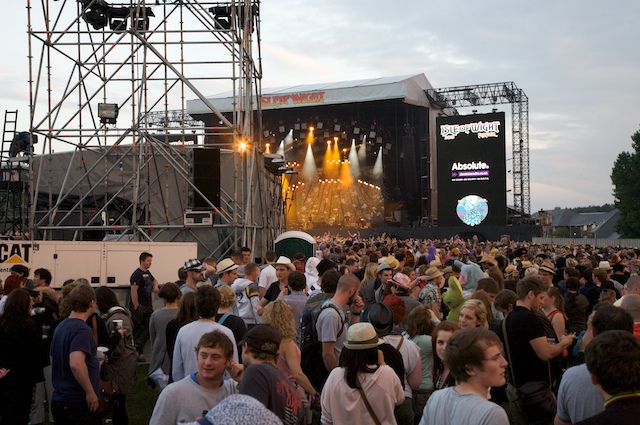 Large crowds next to the mainstage of the Isle of Wight Festival 2010, a music festival which takes place annually at Seaclose Park, Newport, Isle of Wight, just before a performance by Florence and the Machine.